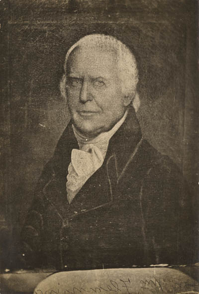 Portrait of the Honorable William Fleming